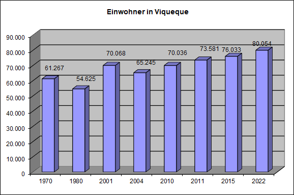 Population in Viqueque/East Timor